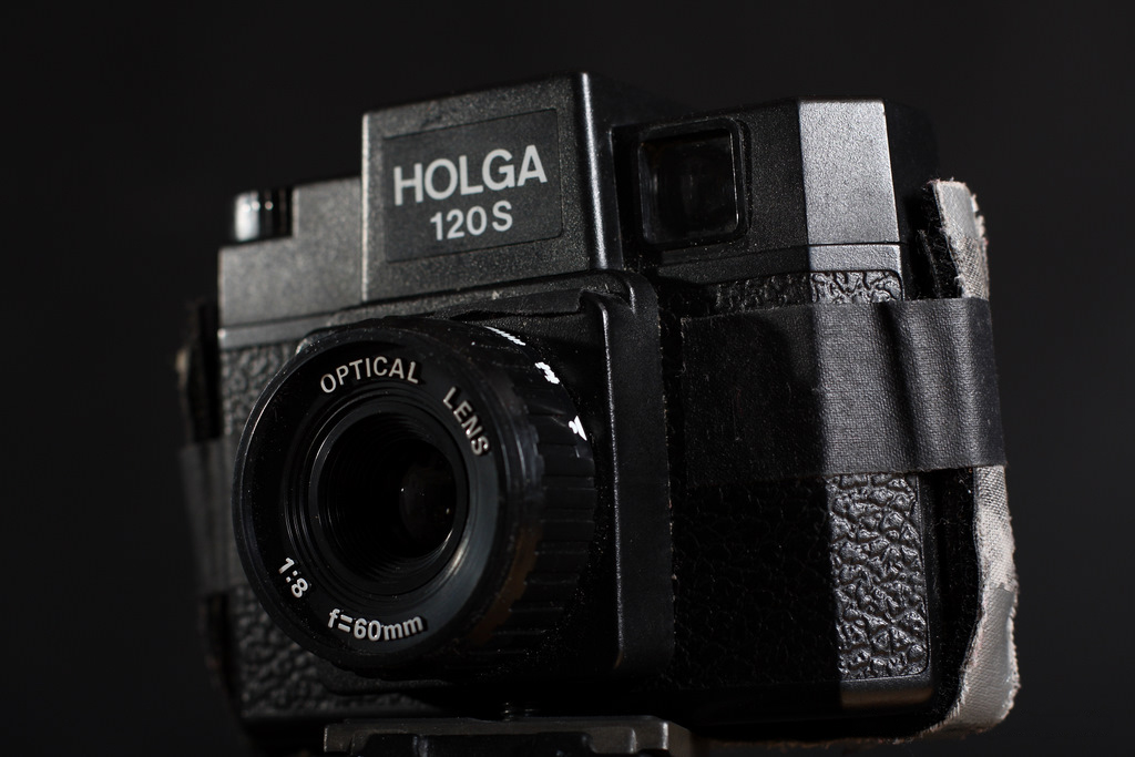 Holga Camera propped with tape in order to prevent light leaks